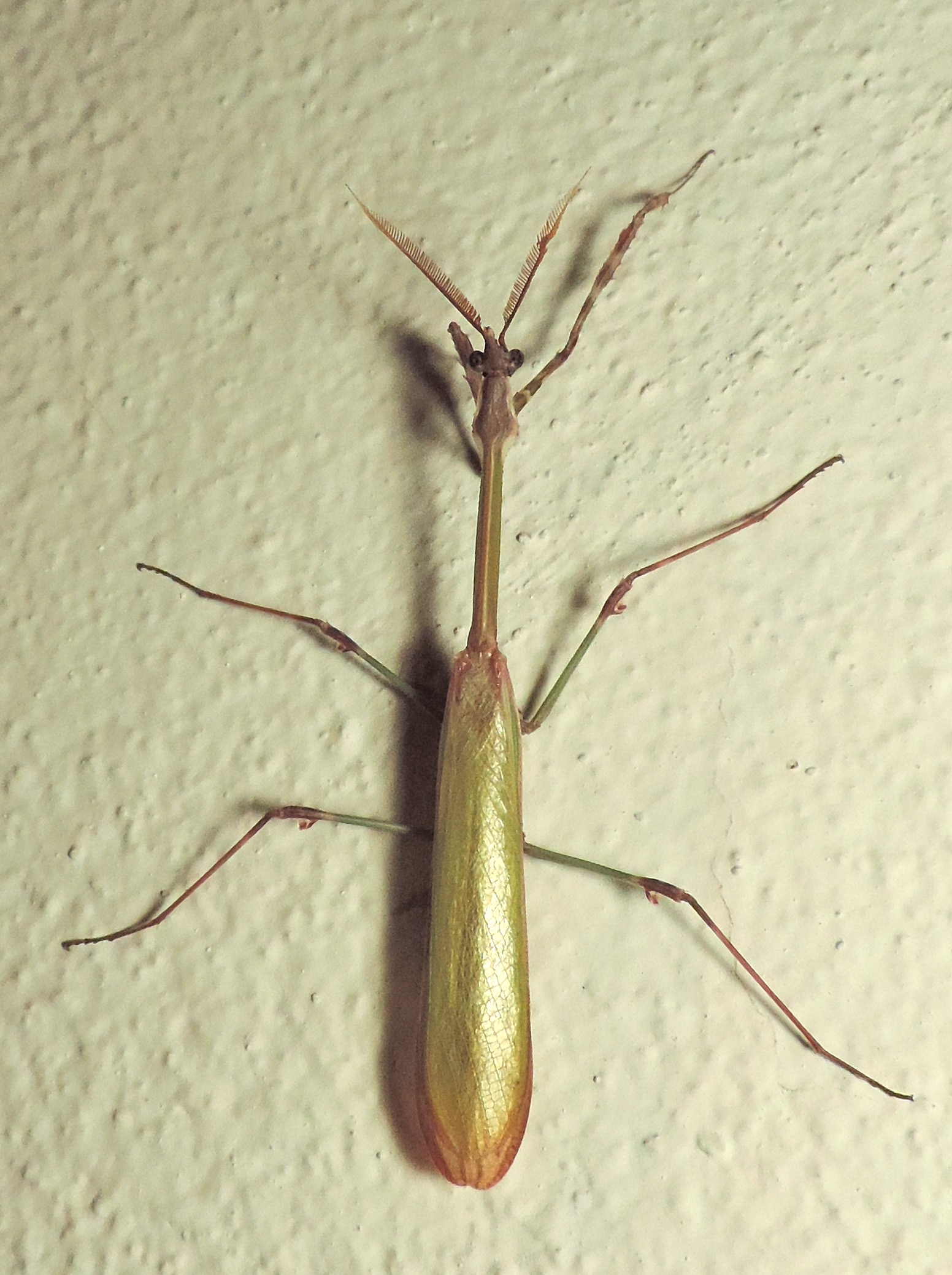 Empusa fasciata, Armutlu, Turkey)